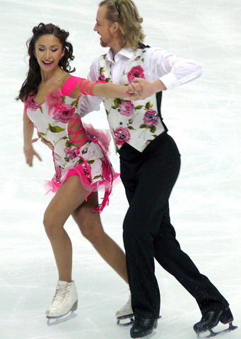 Anastasia Grebenkina and Vazgen Azrojan during the Cup of Russia 2007